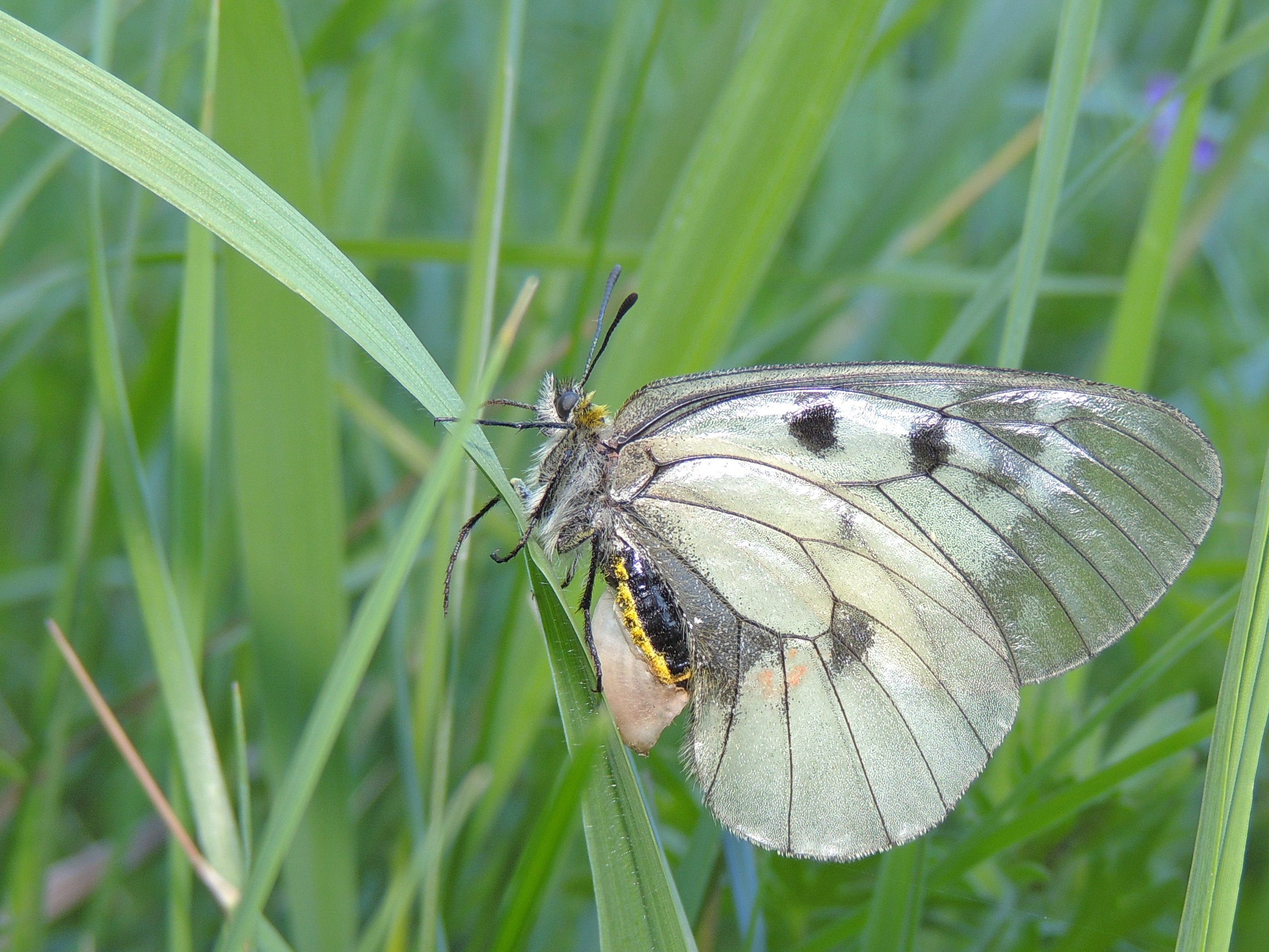 clouded apollo Schwarzer Apollo